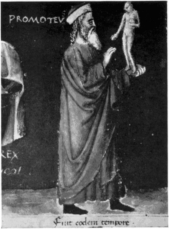 Leonardo da Besozzo, Prometheus as creator of man. Book illumination. Collezione Crespi, Museo Diocesano, Milan.